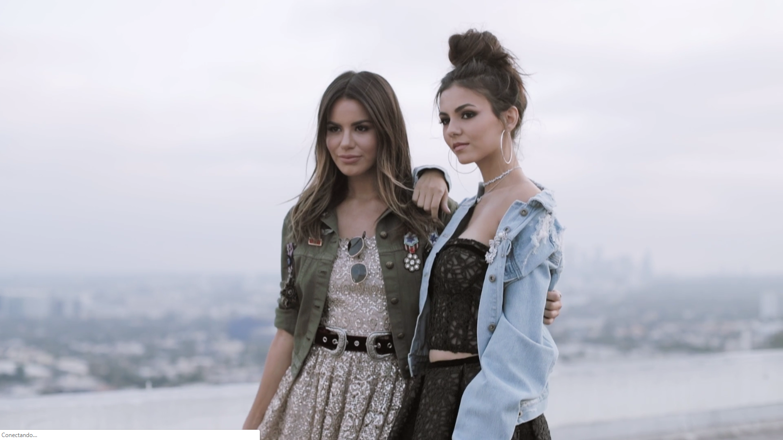 Victoria Justice and Madison Justice for LeFair Magazine